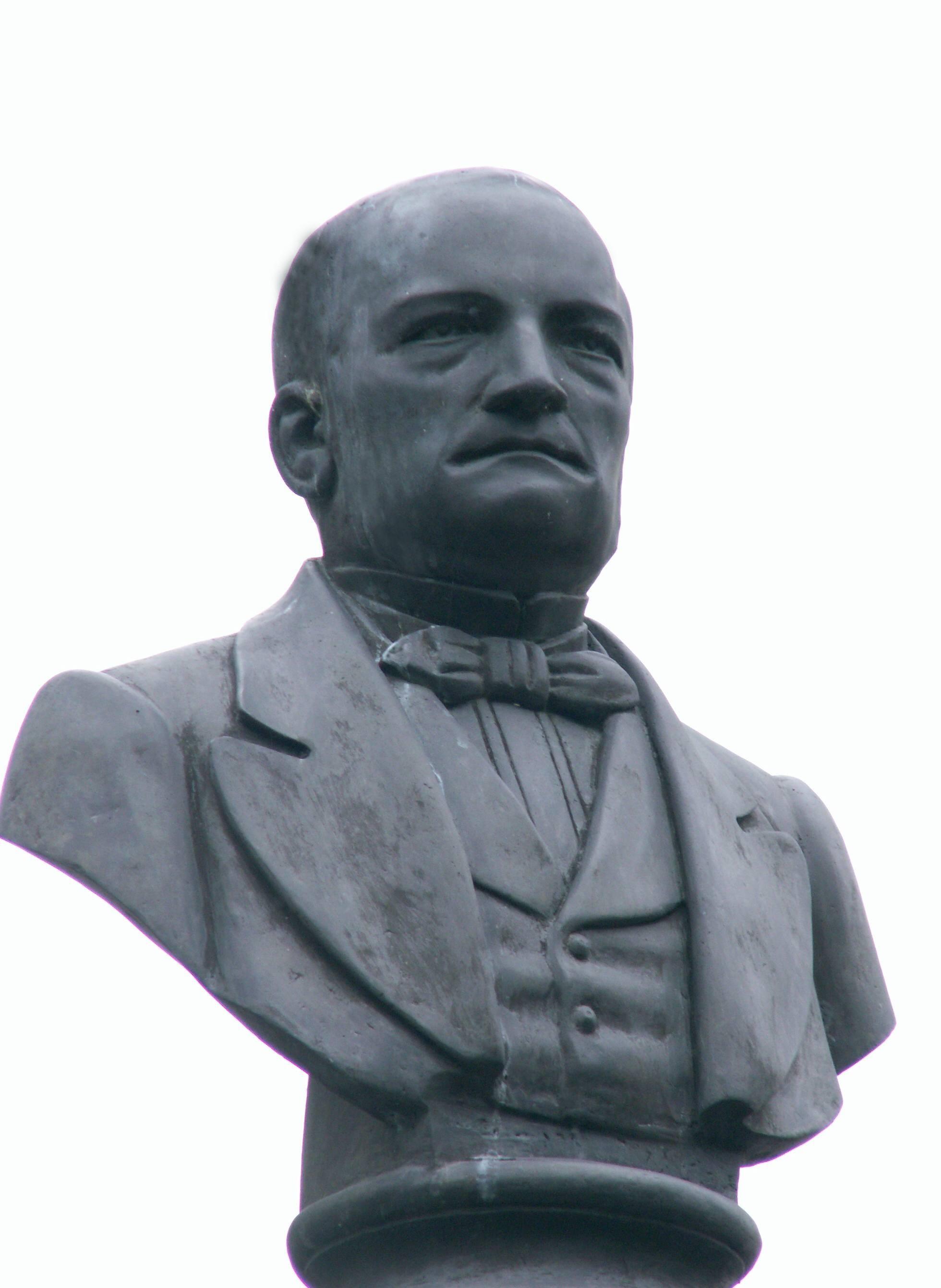 Bust of Stanisław Moniuszko in Vilno, Lithuania